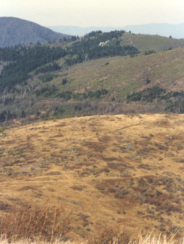 Shining Rock as seen from Black Balsam Knob. Art Loeb Trail on Tennent Mountain is in the foreground. To the left of Shining Rock is Cold Mountain. Distance of 3 miles; photographed 1990-12-25 with 210 mm telephoto lens.